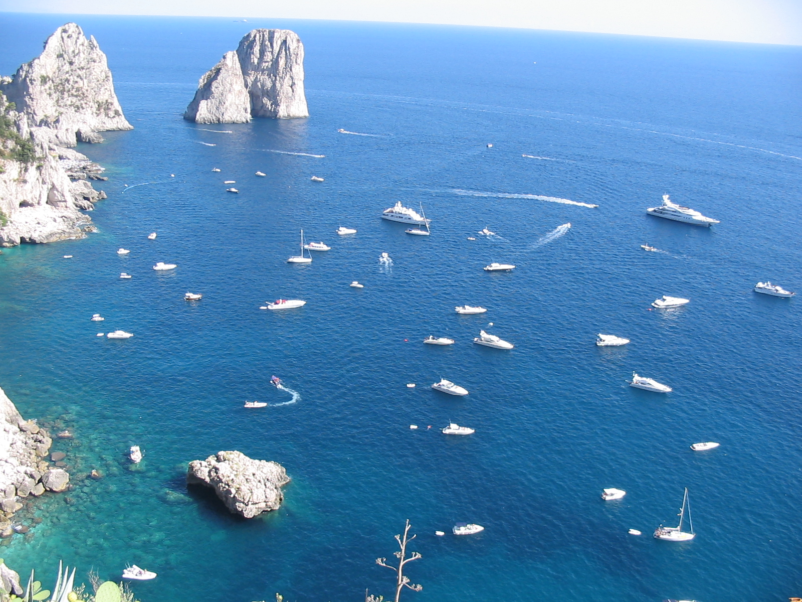 View of Capri